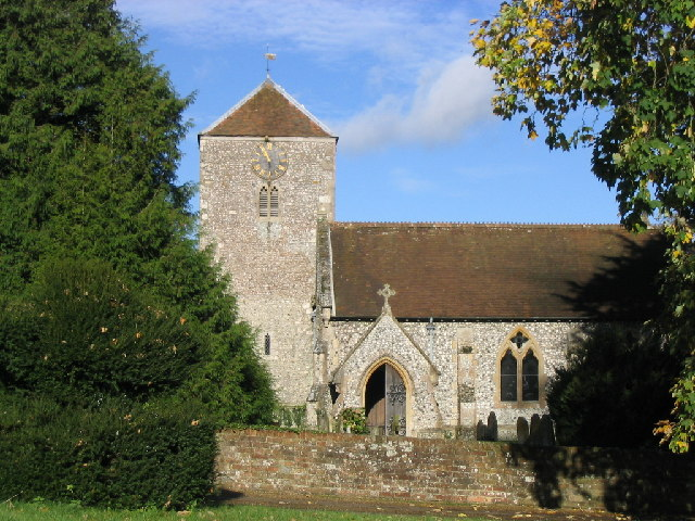 St Lawrence's parish church, Wootton St Lawrence, Hampshire, seen from south-southeast